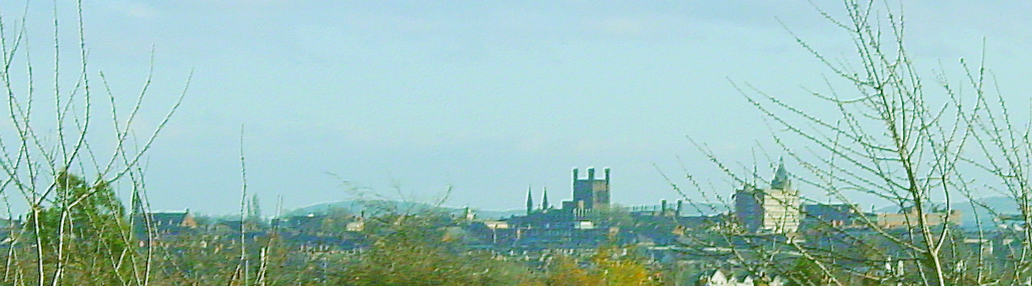 Chester City Centre, seen from Blacon, looking south-east one and a half miles away. You can see the Cathederal, the Tax Office, and just behind, The Town Hall.